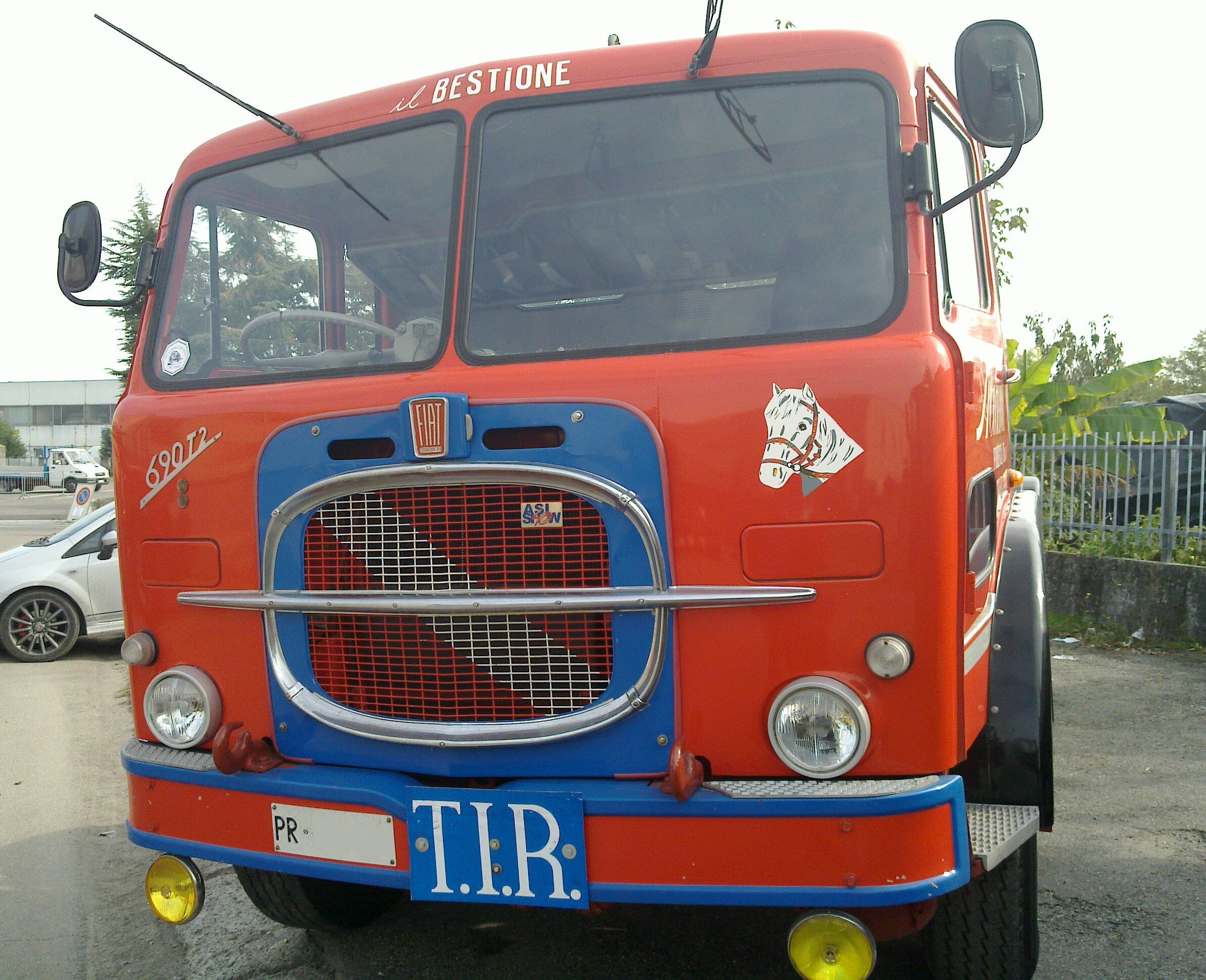 Fiat truck 690T2